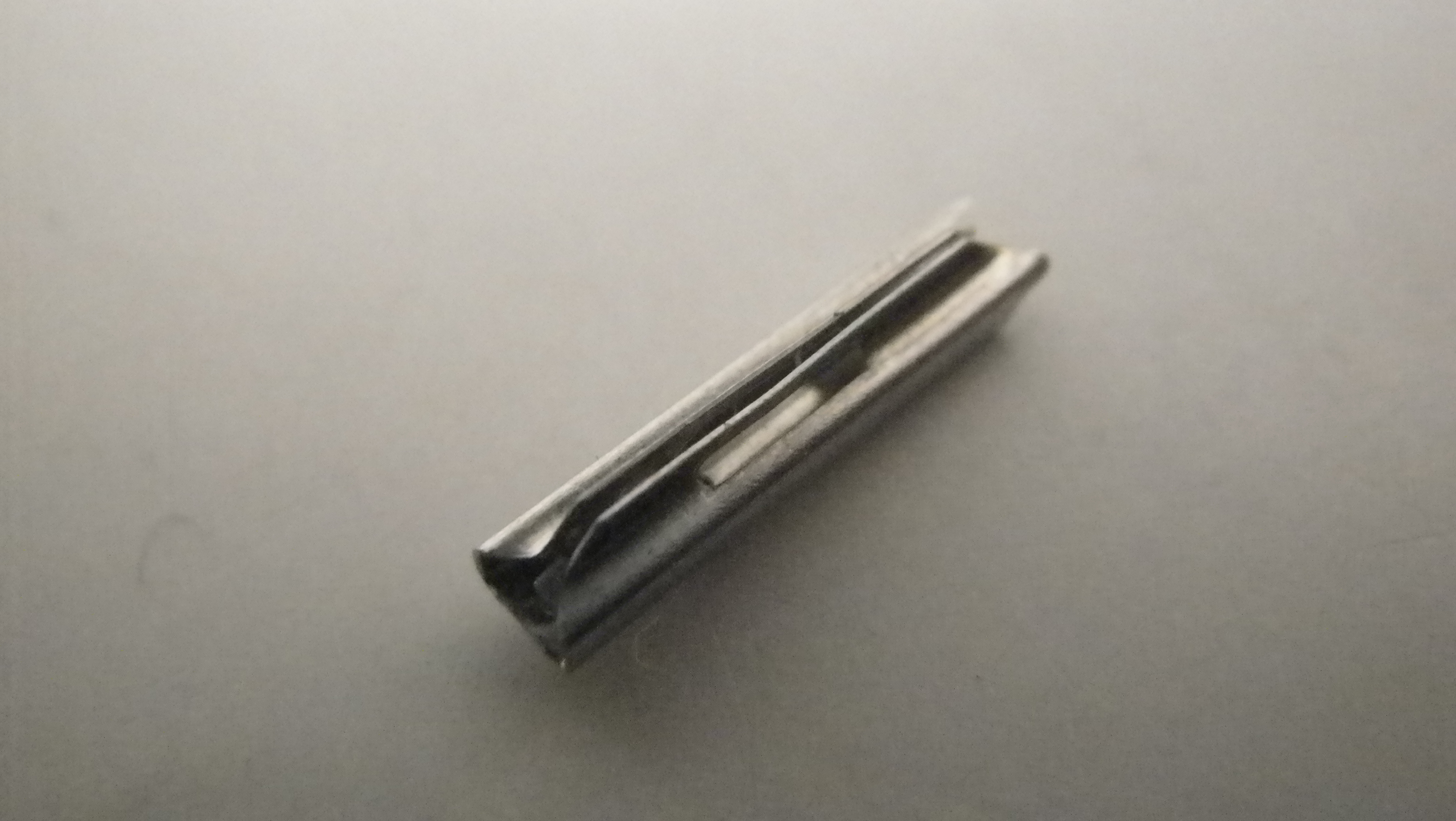 It is a photograph of Joiner who connects the railway track of the model train set.